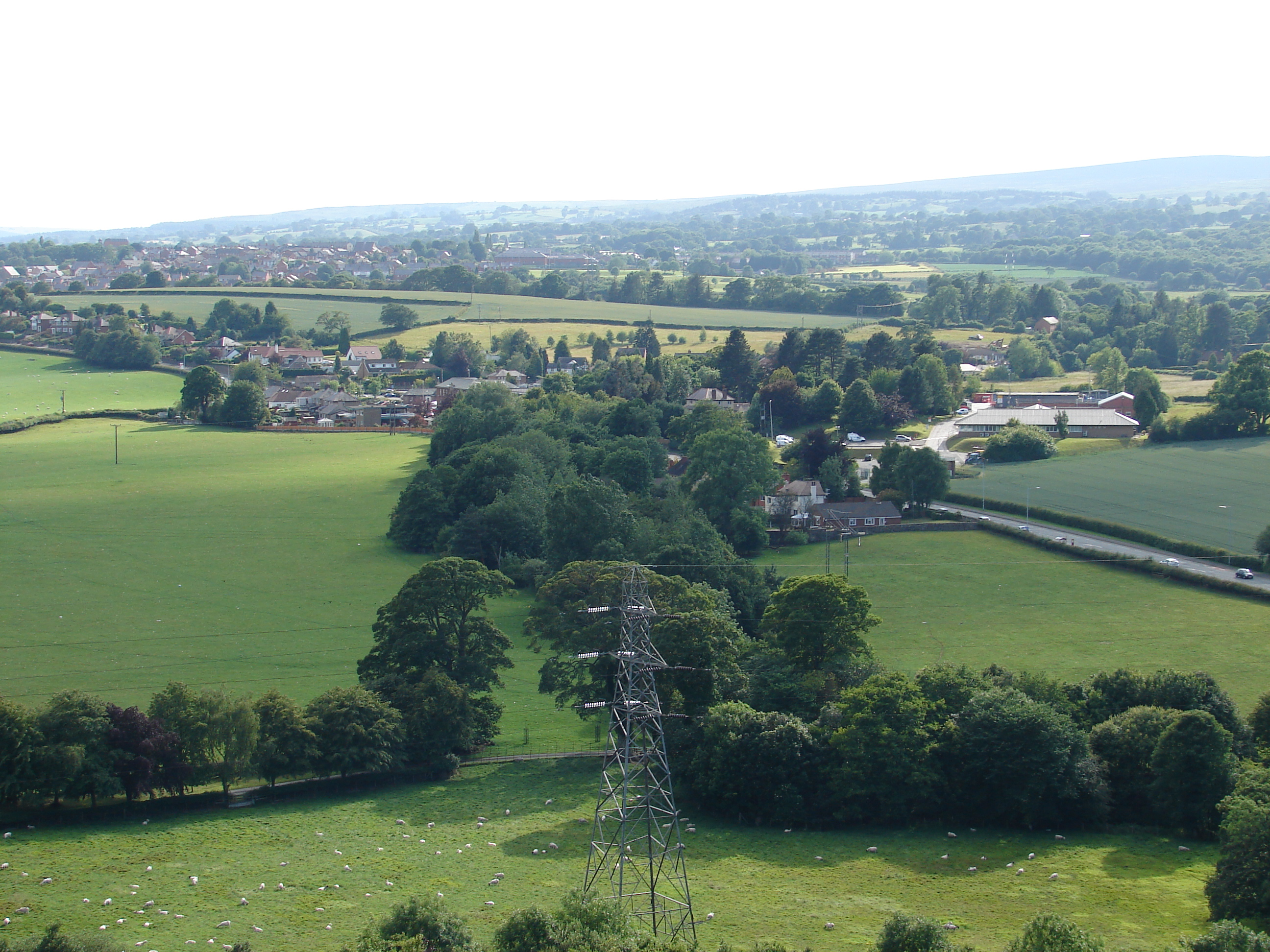 Pentre Bychan from Bersham Tip